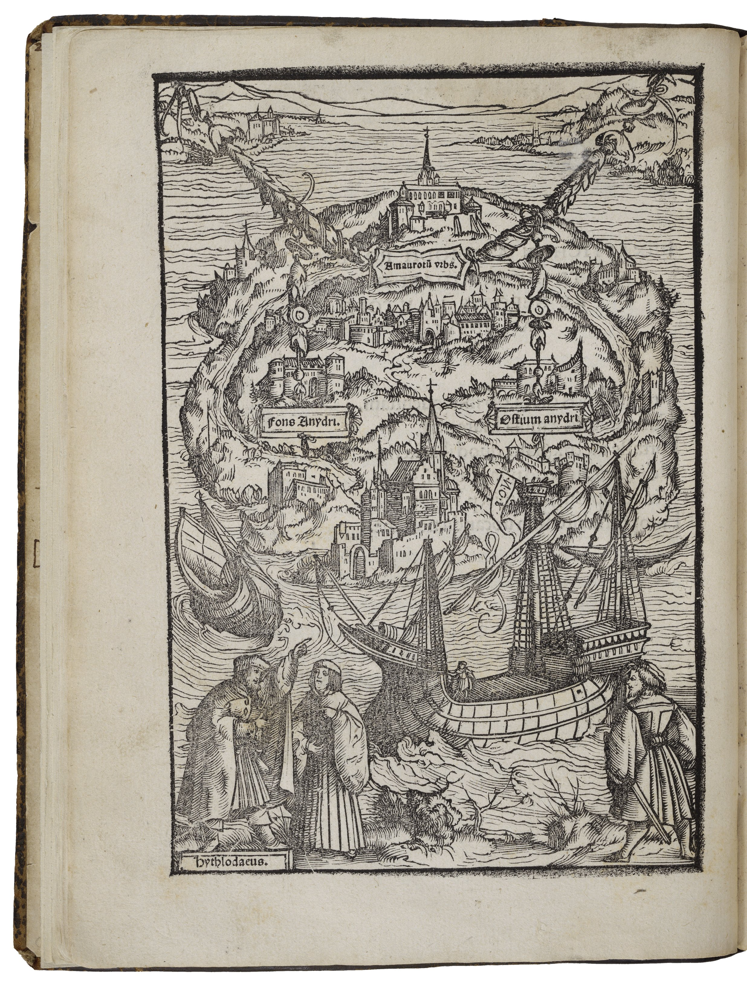 This is the woodcut of Utopia's map in Thomas More's Utopia (november 1518)